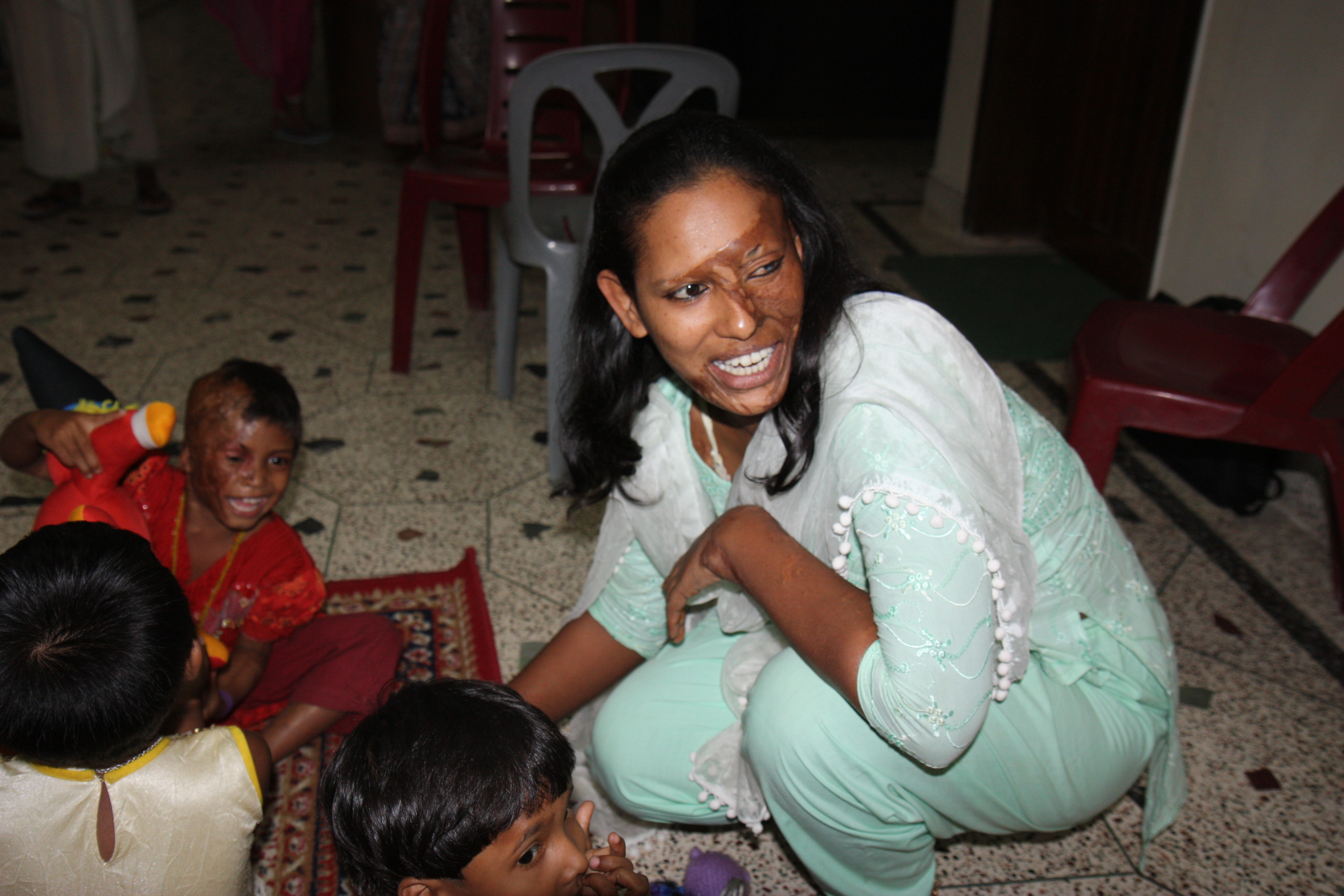 ‘The support I received from ASF has made a huge difference in my life. I can now study, work and make my own decisions. I am truly grateful for the help I have received.’ Sonia, aged 24, from Magura, south-western Bangladesh, was attacked with acid in 2000 after she refused to respond to the proposal of an arranged marriage. Since being admitted to the Acid Survivors Foundation (ASF), she has finished her schooling with education support from the Foundation. She now works for ASF and is currently pursuing an under-graduate degree in the Arts. The ASF is supported by the Acid Survivors Trust International, a UK charity whose patron is HRH Princess Anne. The Trust has established foundations in six other countries, based on the Bangladesh model. Thanks to UKaid and support from other partners, ASF has treated some 2,500 victims since 1999, a quarter of whom are children. The incidence of attacks has declined significantly, from about 500 in 2002 to 150 in 2009. Picture: Narayan Nath/FCO/DFID Terms of use This image is posted under a Creative Commons - Attribution Licence, in accordance with the Open Government Licence. You are free to embed, download or otherwise re-use it, as long as you credit the source as 'Narayan Nath/FCO/Department for International Development'.